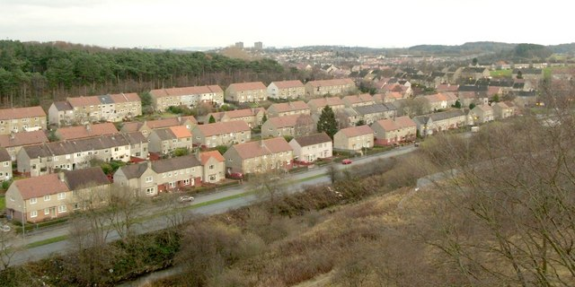 View from Crookston Castle - ENE The viewpoint for this picture was the top of Crookston Castle, and the view is towards the Pollok and Corkerhill areas of Glasgow. The main road visible at the bottom of the image is Lyoncross Road; between this road and the unseen Potterhill Road (higher up the slope) are two rows of houses. Between Potterhill Road and Barnbeth Road (higher up again) are another two rows of houses. There are no houses on the far side of Barnbeth Road, but Crookston Wood begins there; this wood can be seen in the photo.